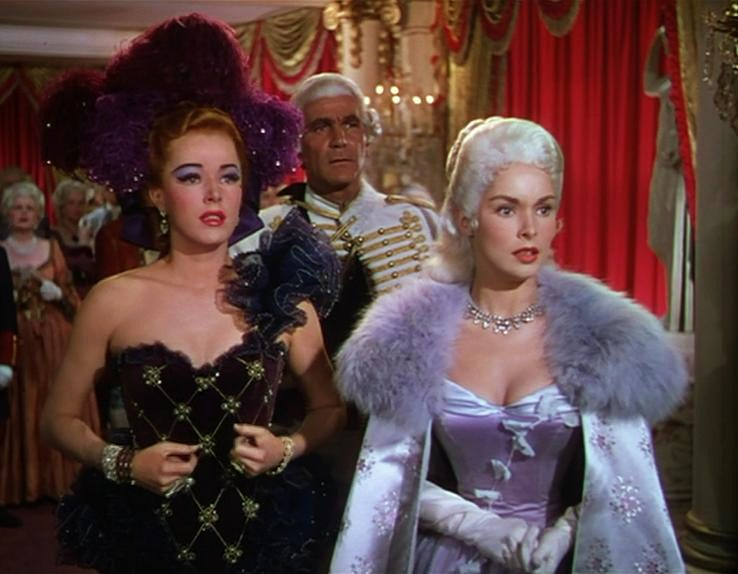 L. to R. : Eleanor Parker, Henry Wilcoxon & Janet Leigh in Scaramouche - trailer (cropped screenshot)